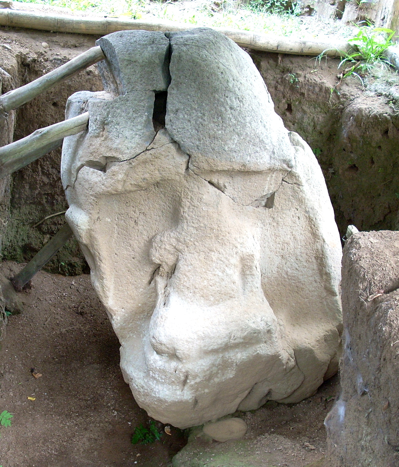 Monument 23. Heavily eroded sculpture at Takalik Abaj, near El Asintal in the Guatemalan department of Retalhuleu. The sculpture is typically Olmec in style and content, showing a figure emerging from a cave, bearing an infant in its arms. It may have been a recarved colossal head, with apparent earspools visible on either side.